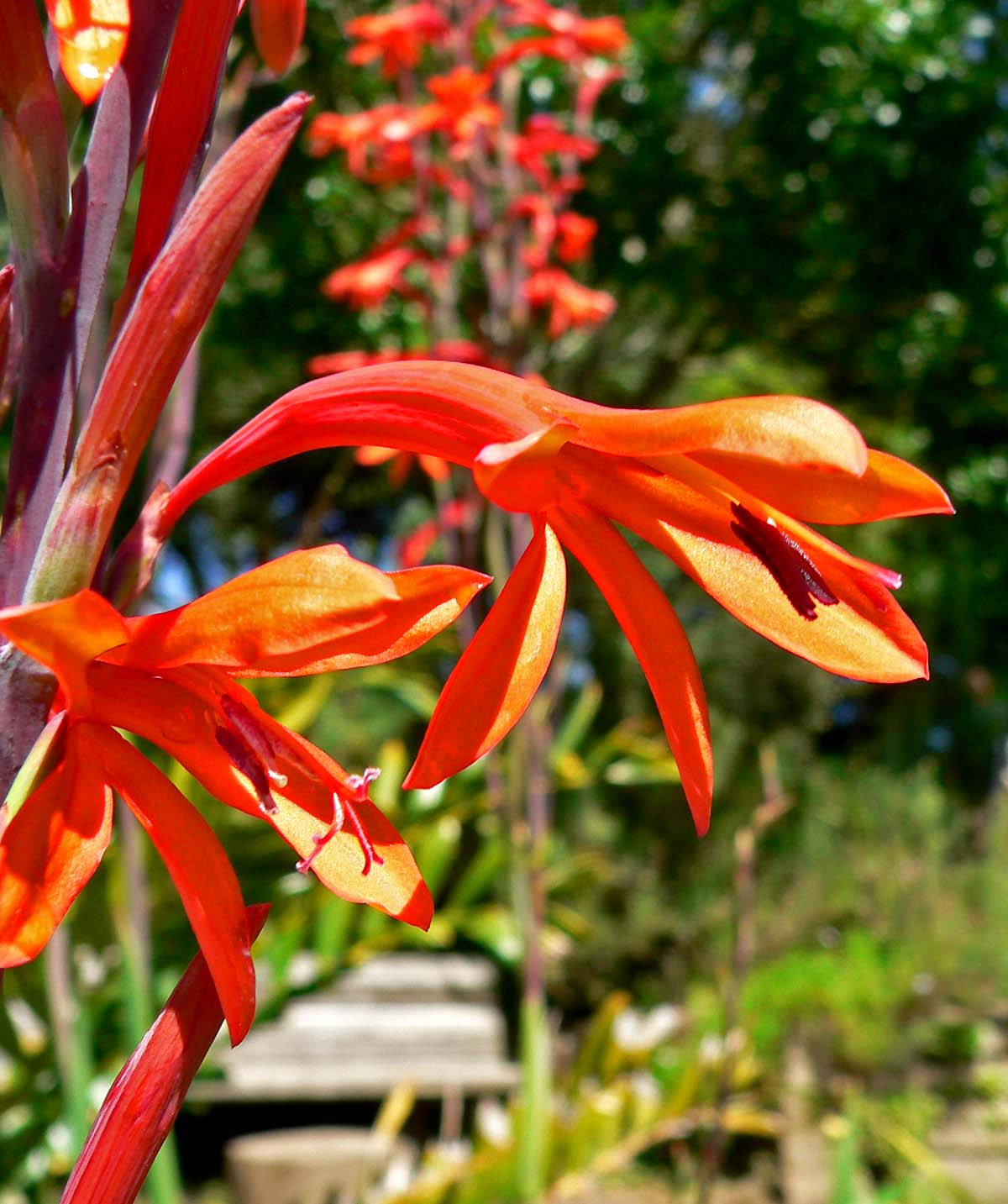 Photo of Watsonia fulgens at the San Francisco Botanical Garden